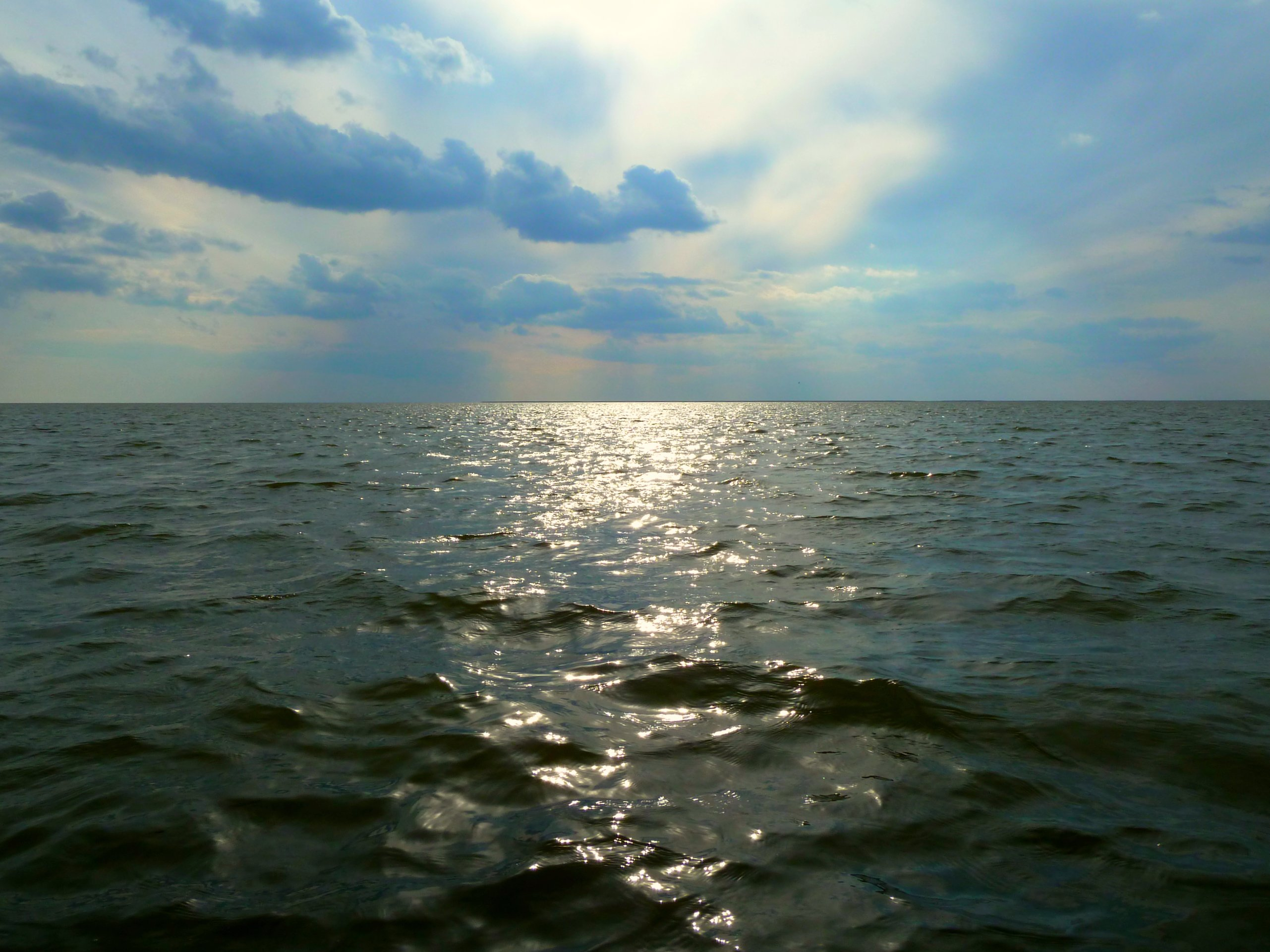 Volga astrakhan